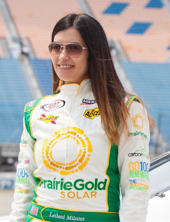 Leilani Maaja Münter, American race car driver and environmental activist, at Chicagoland Speedway on July 19, 2014.